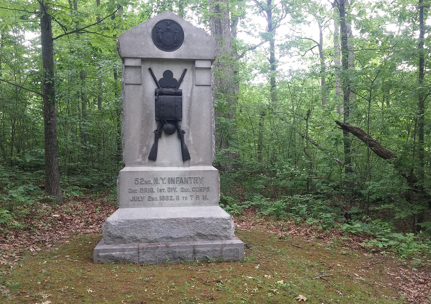 Monument of 52nd New York infantry regiment on Stony Hill